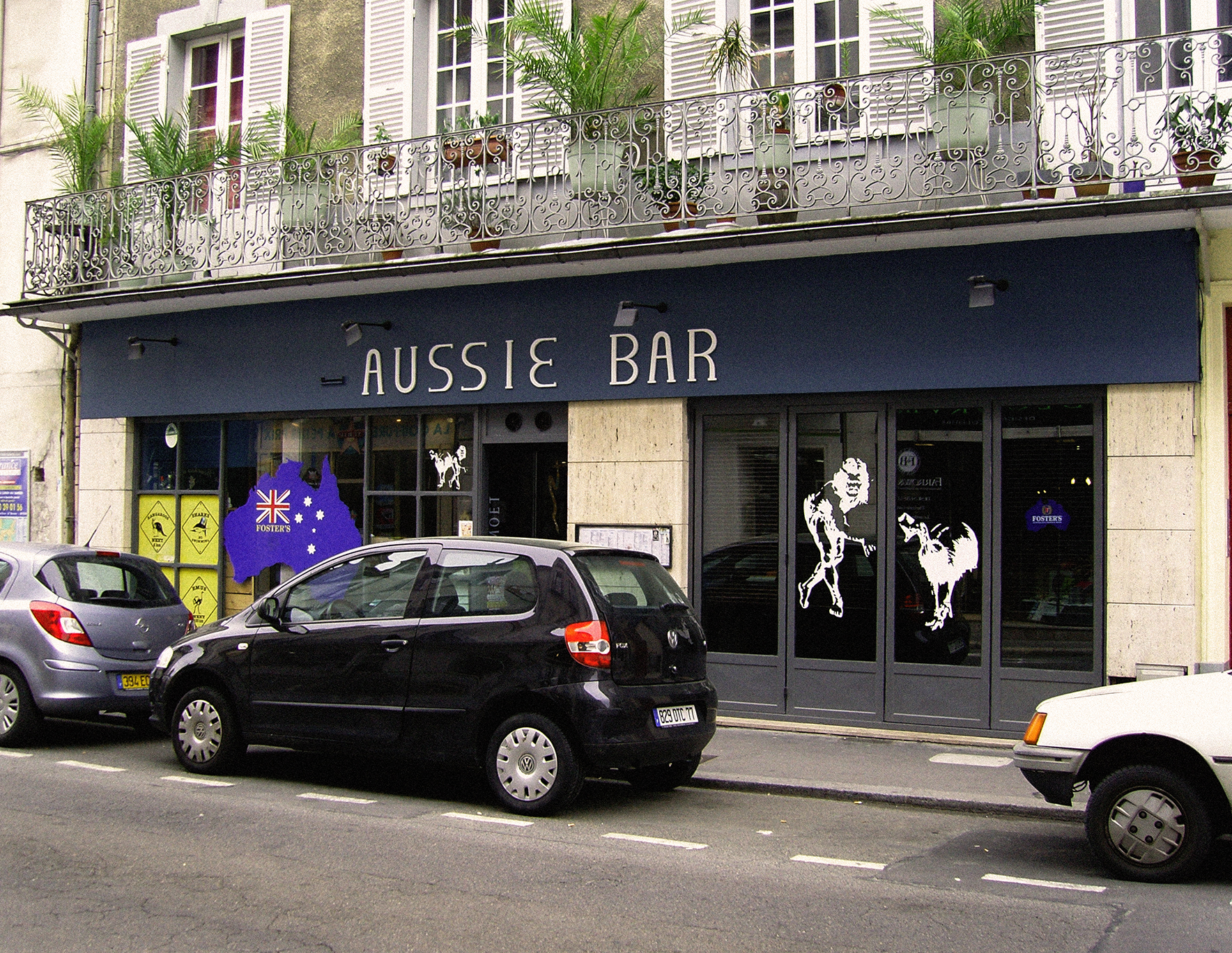 Aussie Bar, Fontainebleau